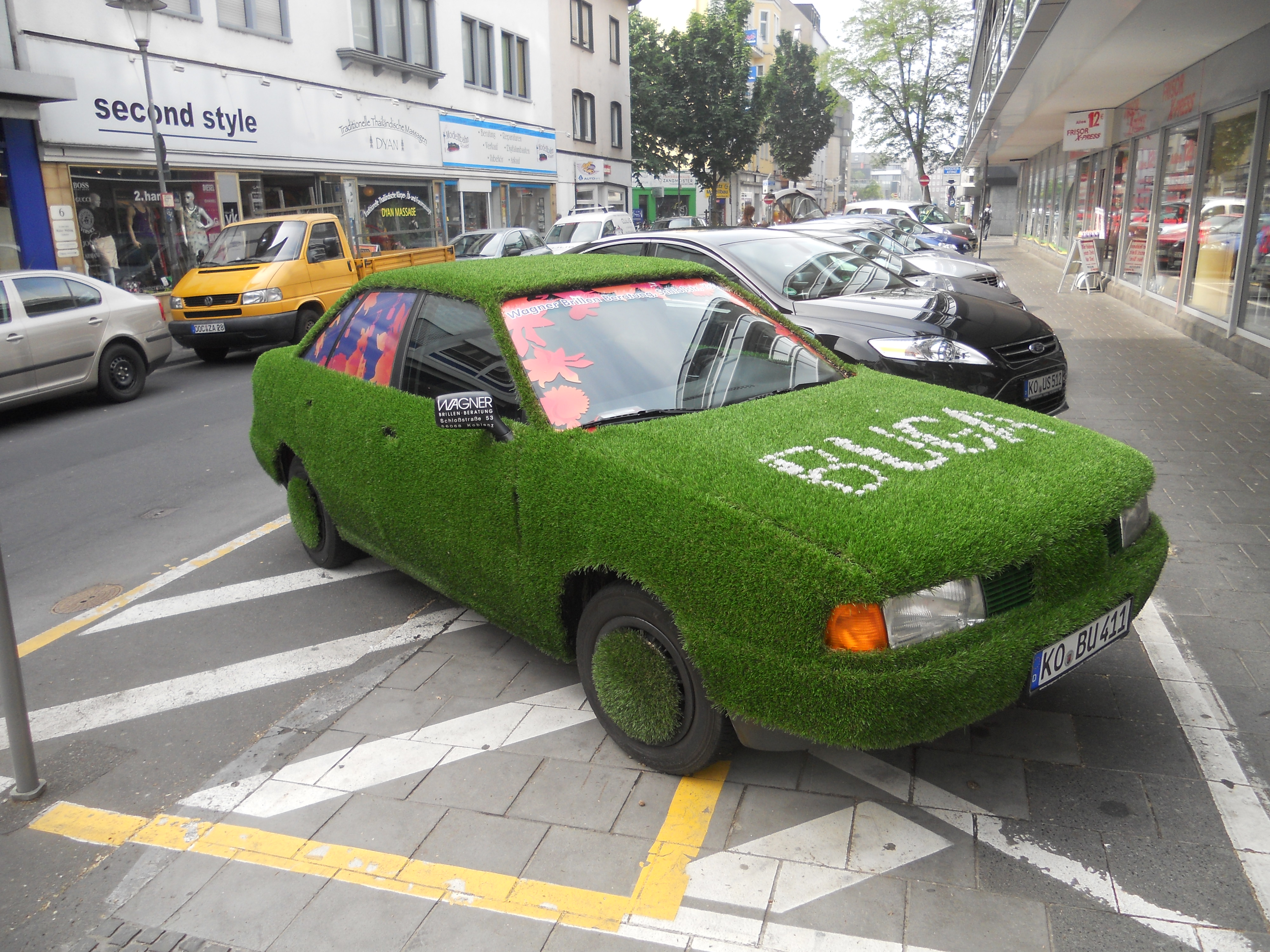 Publicitycar for the Bundesgartenschau in Koblenz